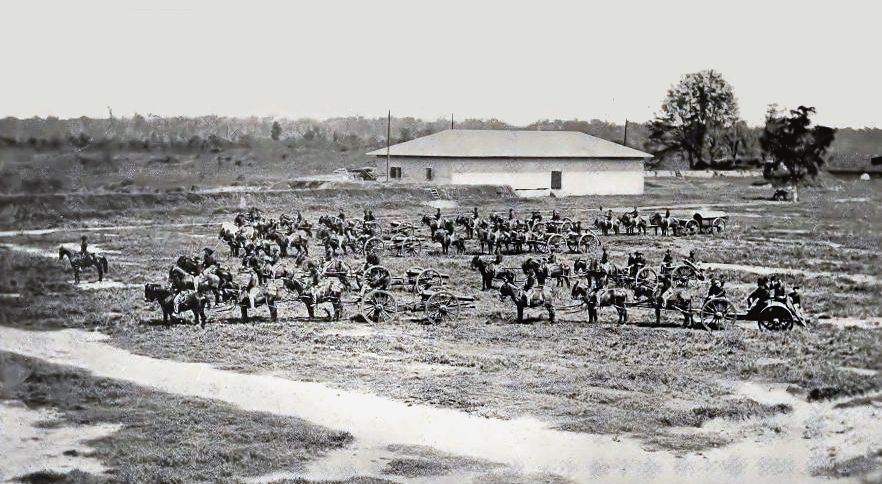 Federal Artillery Battery, Baton Rouge, Louisiana